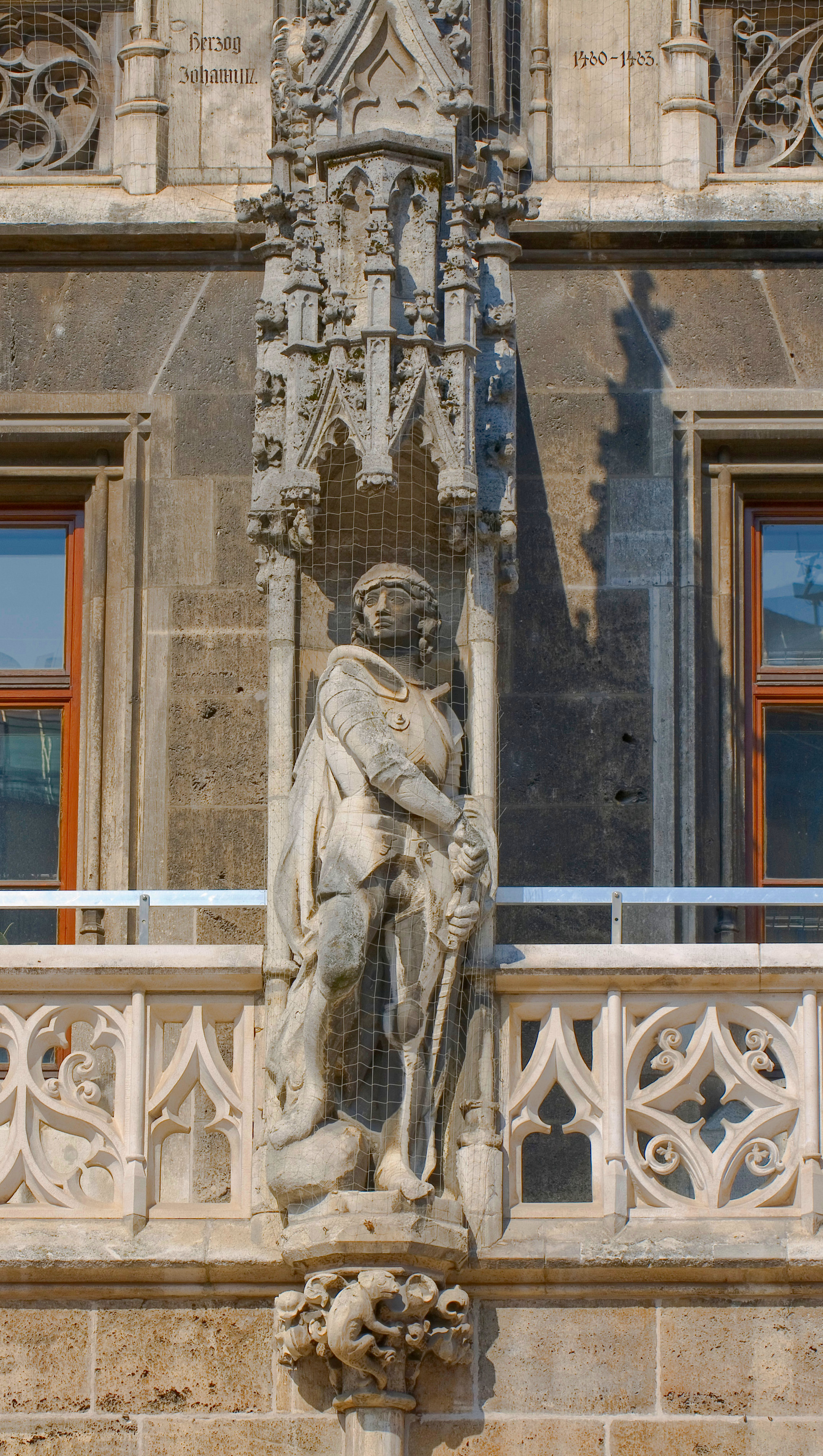 Statue at the New City Hall, Munich, Germany, representing Christoph, Duke of Bavaria, called „The Strong“, by sculptor Hugo Kaufmann (1868-1919)